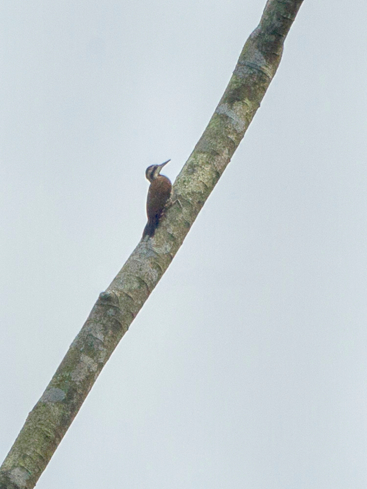 A Fire-bellied Woodpecker (Dendropicos pyrrhogaster) in the Kakum National Park (Ghana)